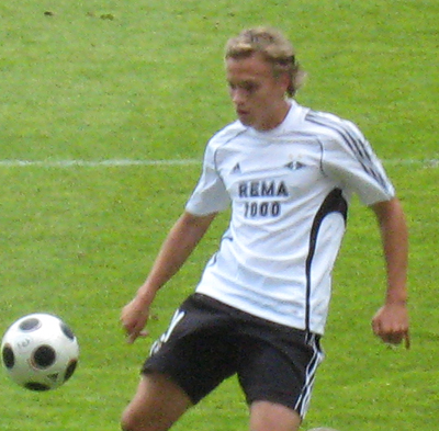 Jo Sondre Aas in Rosenborgs match against FK Ekranas in Trondheim July 13th 2008